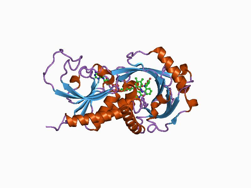 Cartoon representation of the molecular structure of protein registered with 1c0i code.